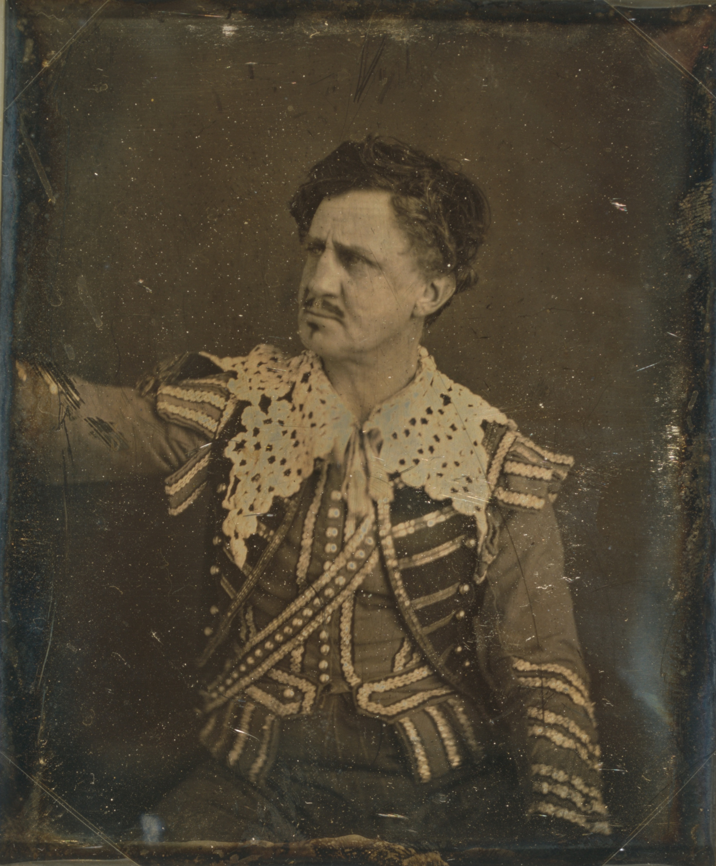 Junius Booth, half-length portrait, three-quarters to the left, in theatrical costume, ca. 1850